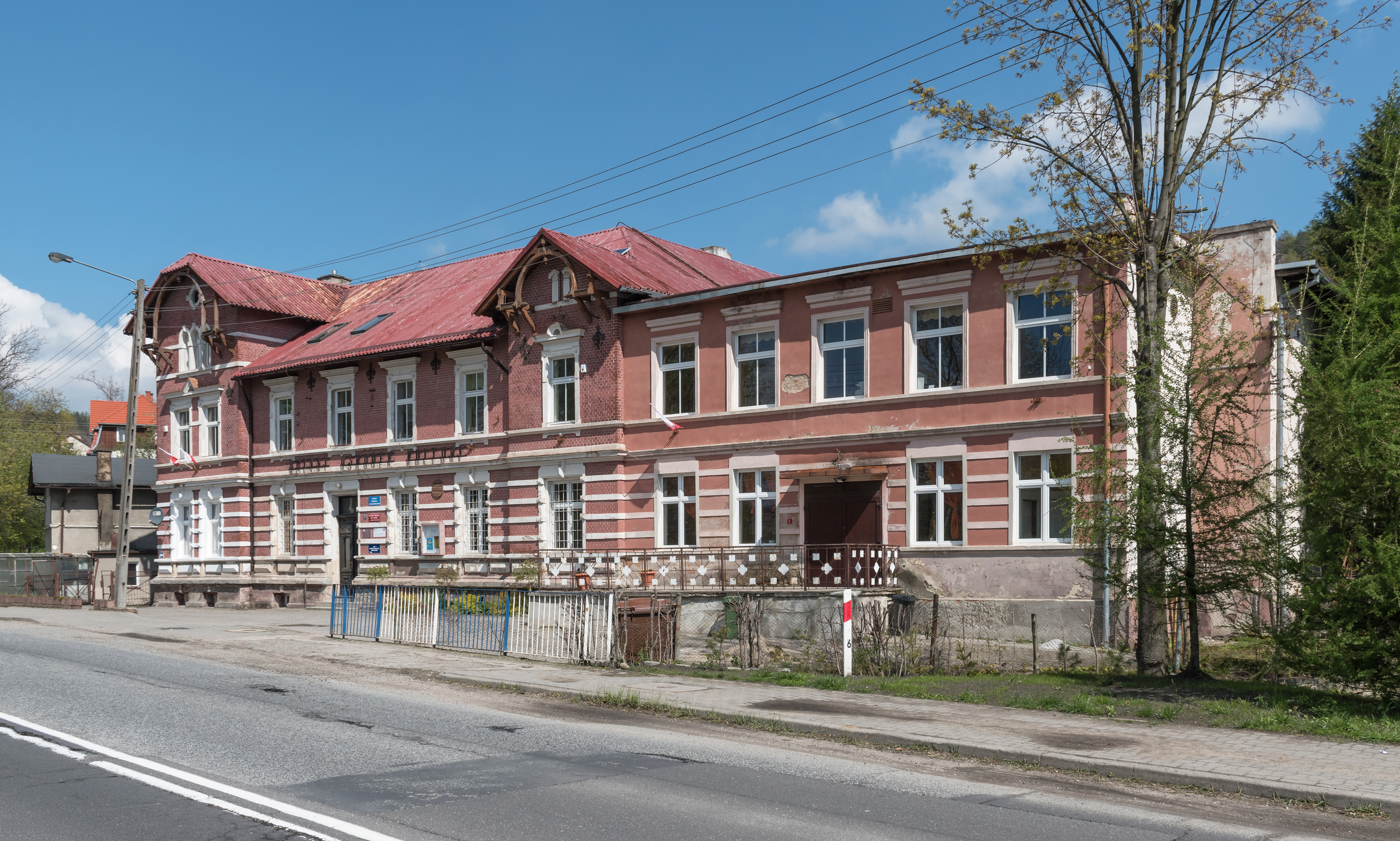 House of culture in Ołdrzychowice Kłodzkie